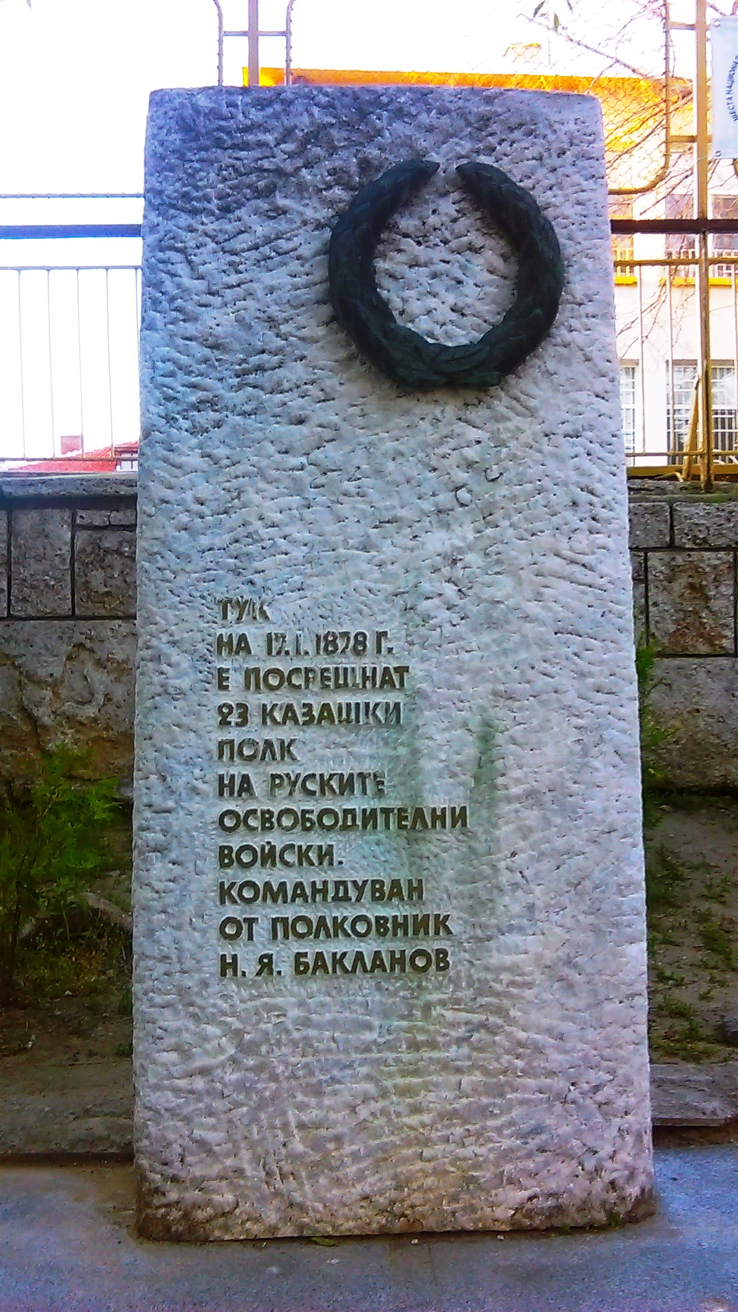 A memorial to the city liberation by russian troops in Yambol, Bulgaria